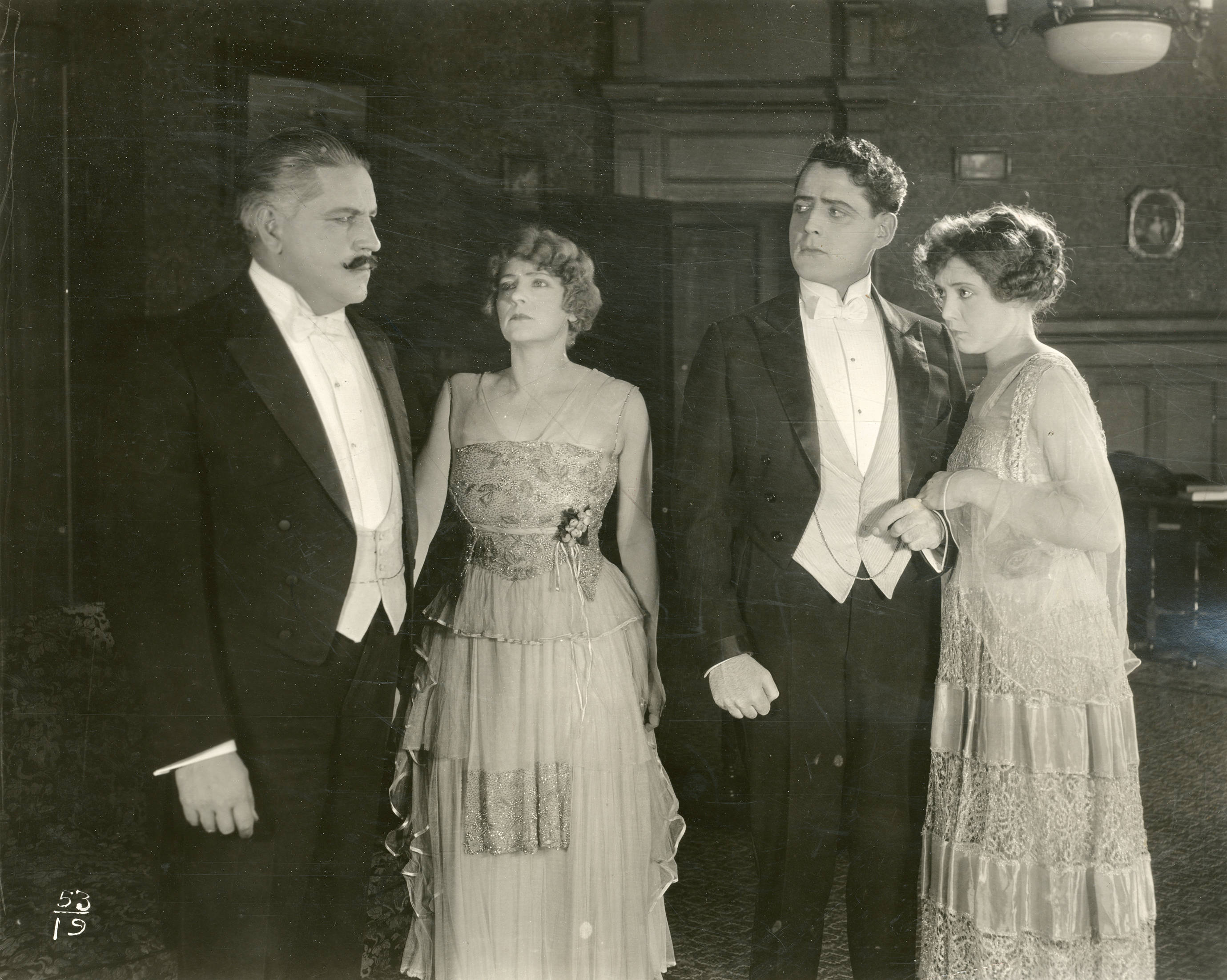 A scene from Come Again Smith (1919) which played at the Mission Theater, Seattle. Includes J. Warren Kerrigan and Lois Wilson. Date stamped Ap. 6, 1919. Subjects: motion pictures, actors, actresses